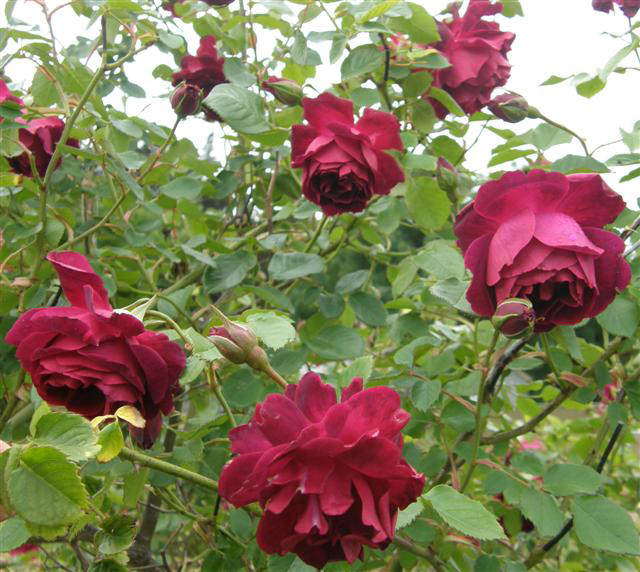 Alister Clark climbing rose Black Boy 1919